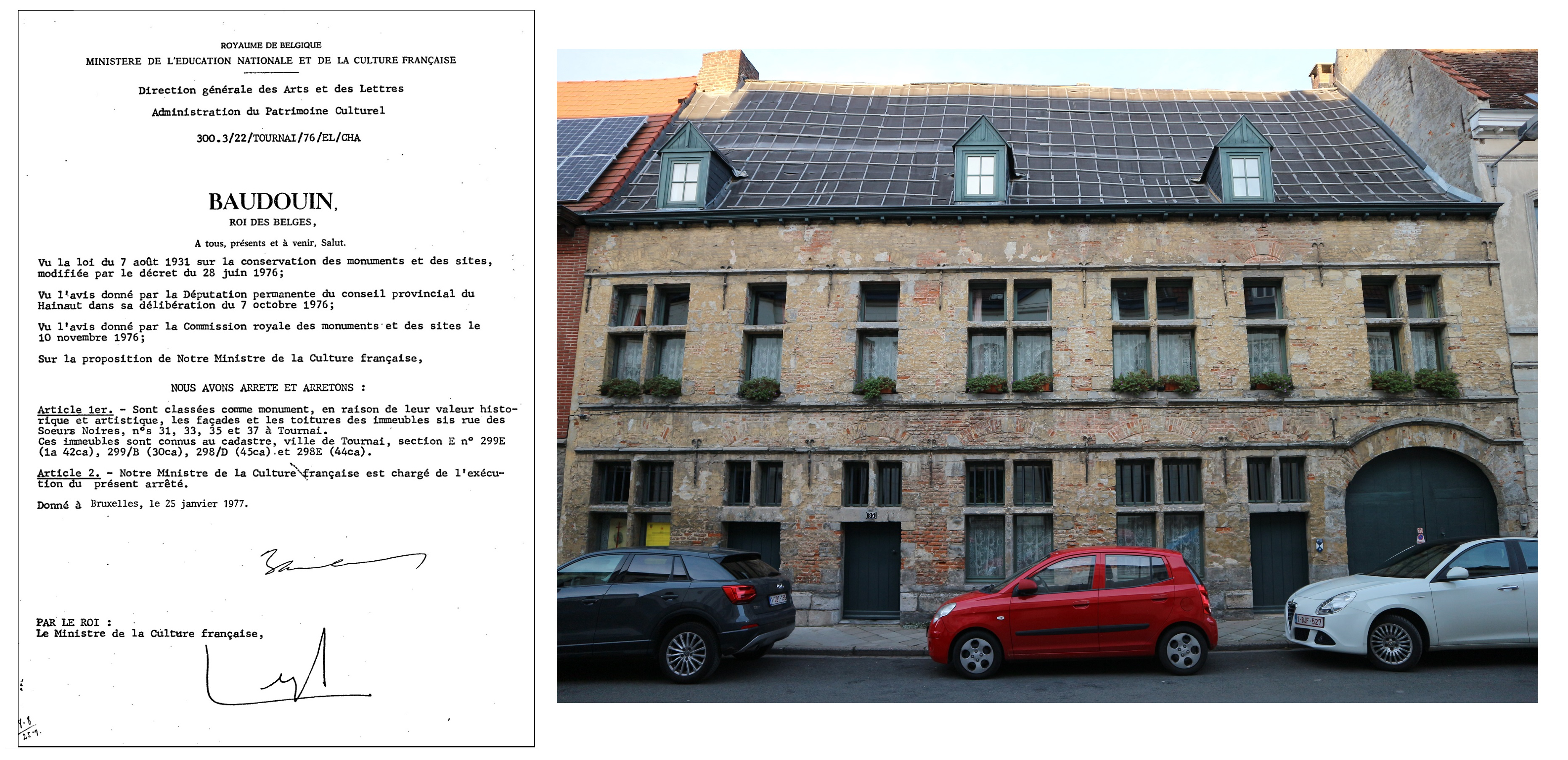 Buildings located on rue des Sœurs Noires (Black sisters street), numbers-33-35-37 + 31 . These three houses, built on the end of the 17th century, each rise on two levels of two bays on an apparatus basement. The homogeneity of the facade is conferred by the continuous bands connecting the lintels and thresholds of the bays and the old yellow plaster that covered it. The windows have kept their mullion (transom bay), crossover, and crossover (first floor bays) under a brick discharge arch. The right-hand side of the facade (N°31), constituting a seventh bay, is occupied by an imposing low arch portal under archivolt, which is probably the result of alterations. An acute and continuous gabled roof, opened by three gabled dormers, surmounts the whole.